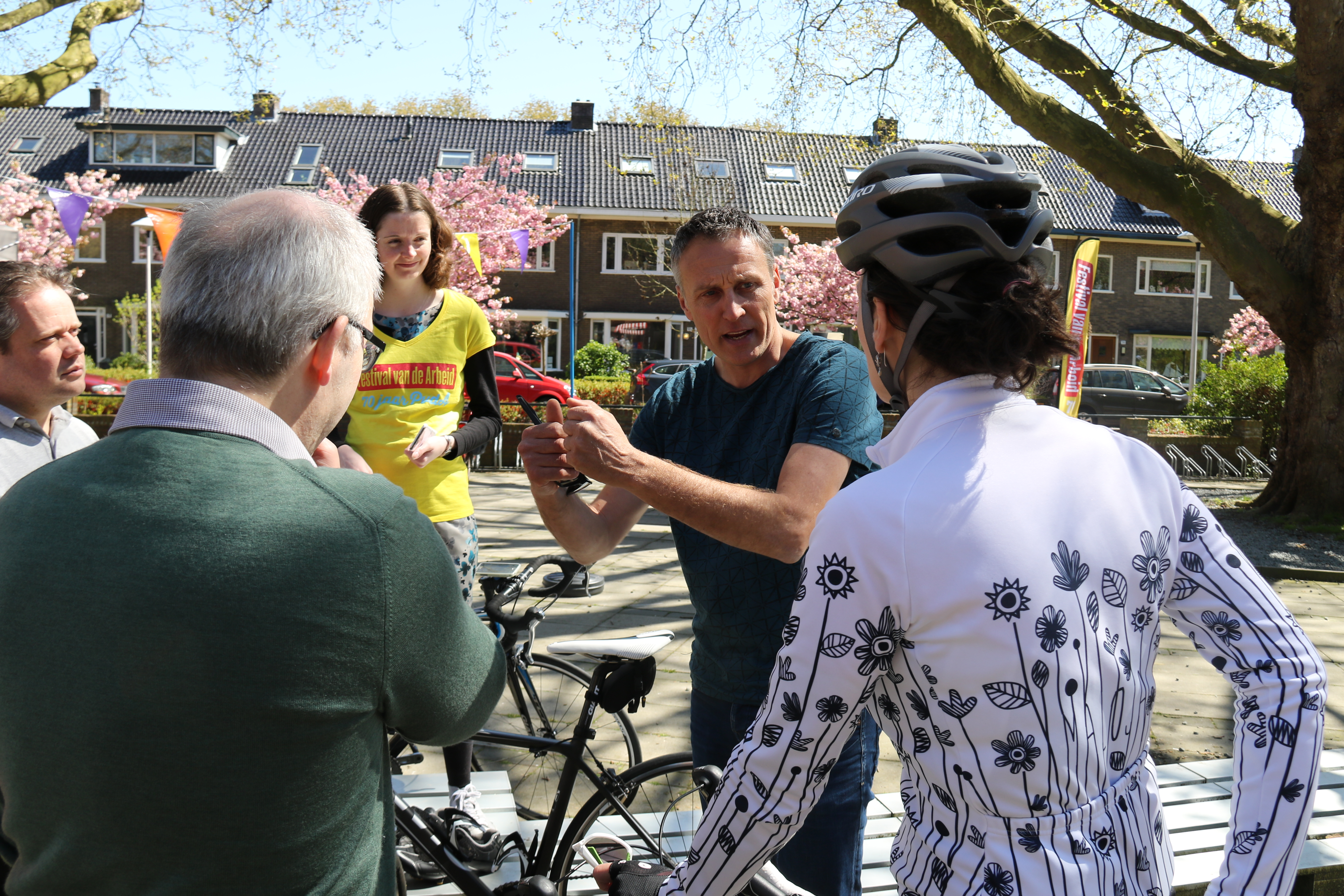 Oud-wielrenner Tristan Hoffman tijdens de wielrenclinic. Foto: Victor Devillers